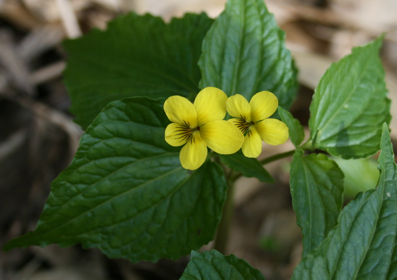 Viola brevistipulata, in Mount Sannomine, Ryōhaku Mountains, Japan.